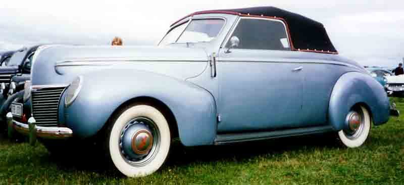 1939 Mercury Series 99A Convertible Coupé